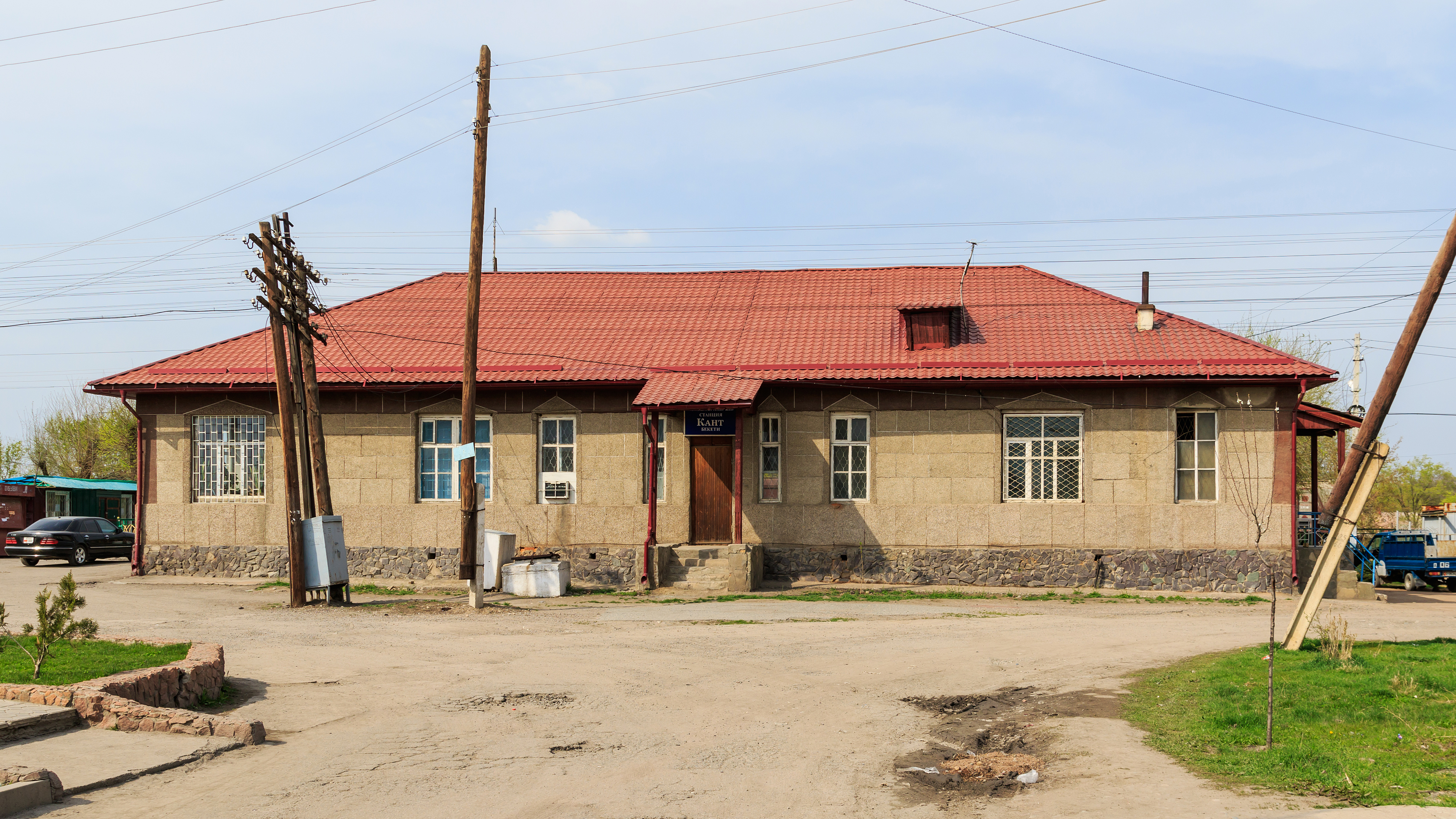 The railway station in Kant, Chuy Region, Kyrgyzstan